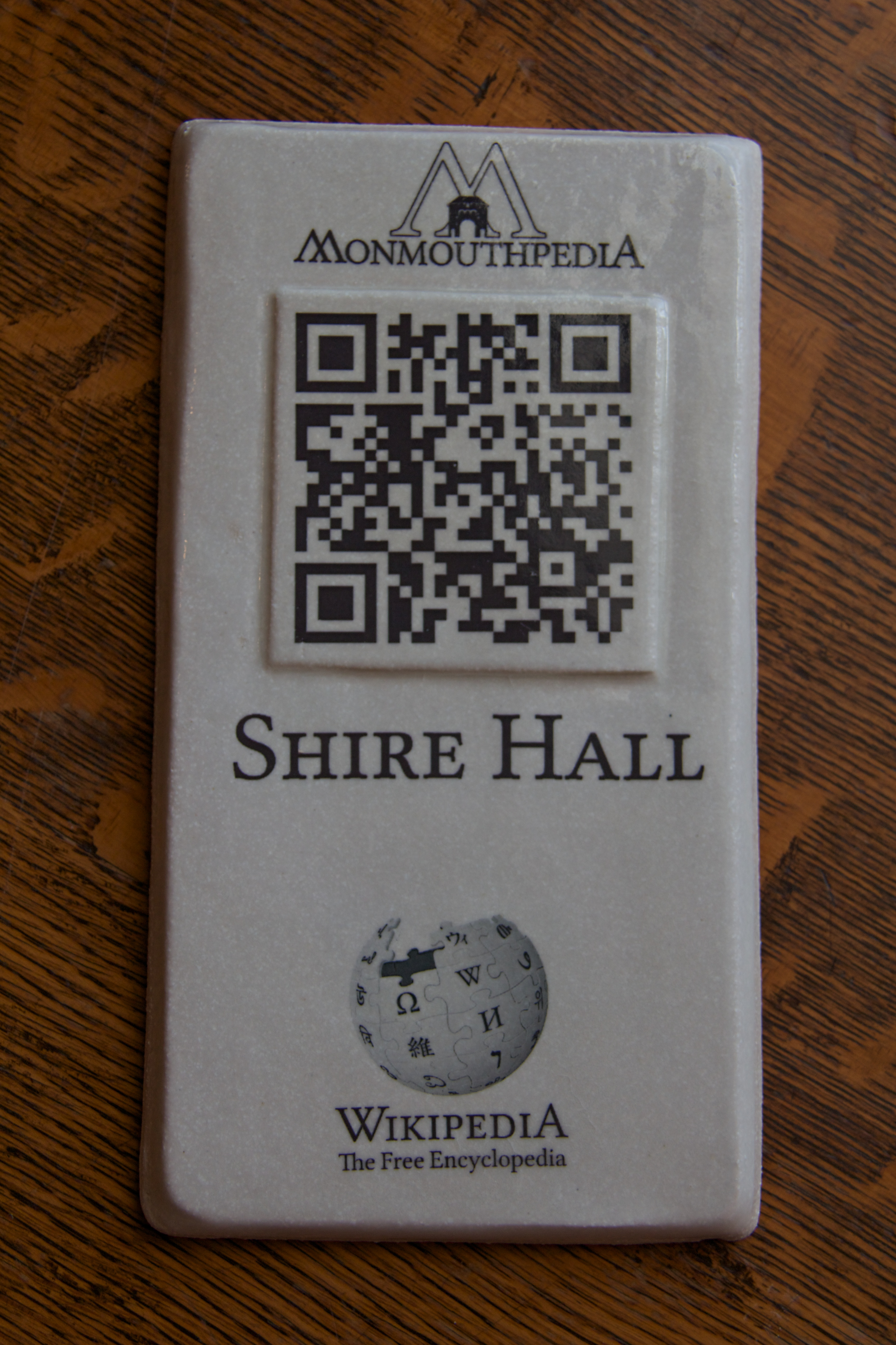 Shire Hall QRpedia plaque at Monmouth, for Monmouthpedia.